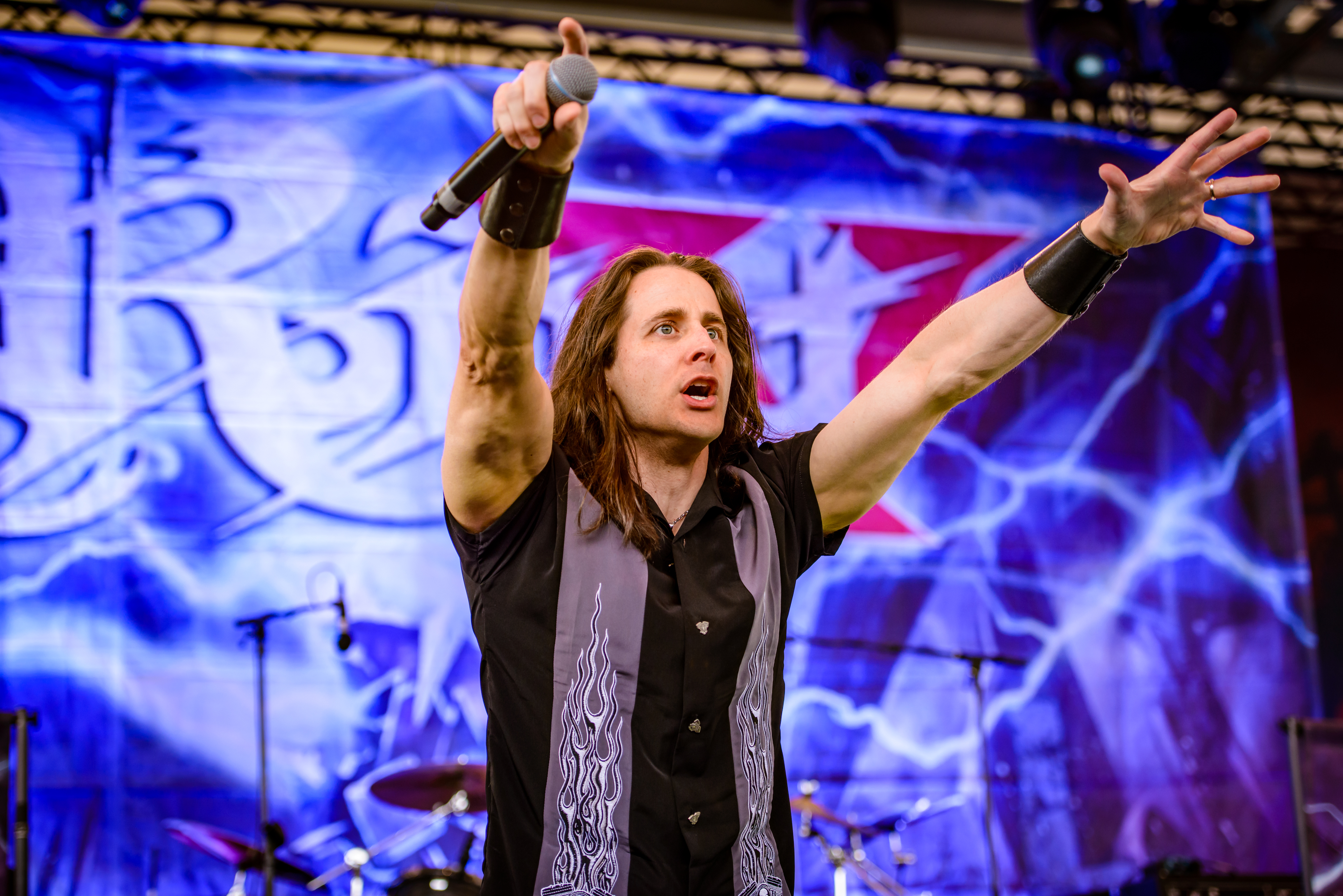 Riot V; RockHard Festival 2016